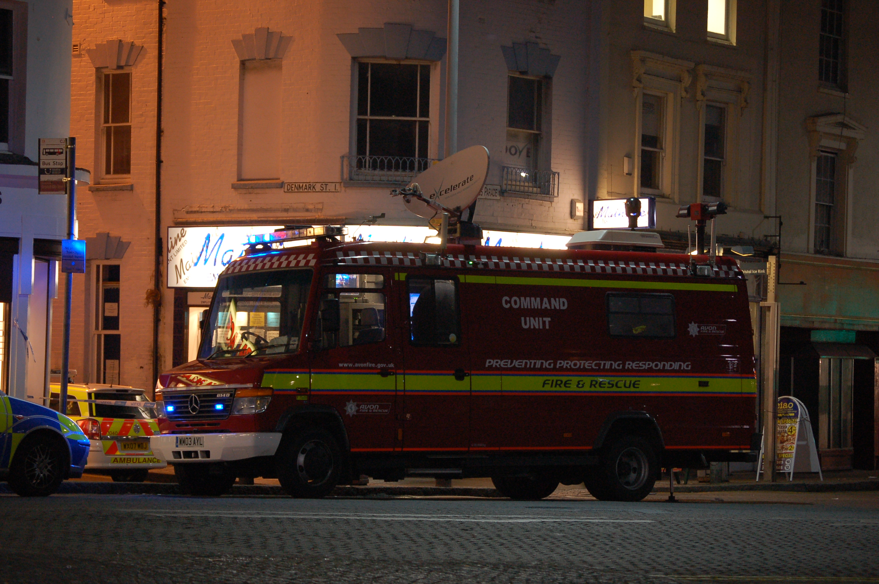 Photograph of Avon Fire and Rescue Service's command unit from Kingswood fire station in Bristol at a fire in Denmark Street in which a man died. News reports